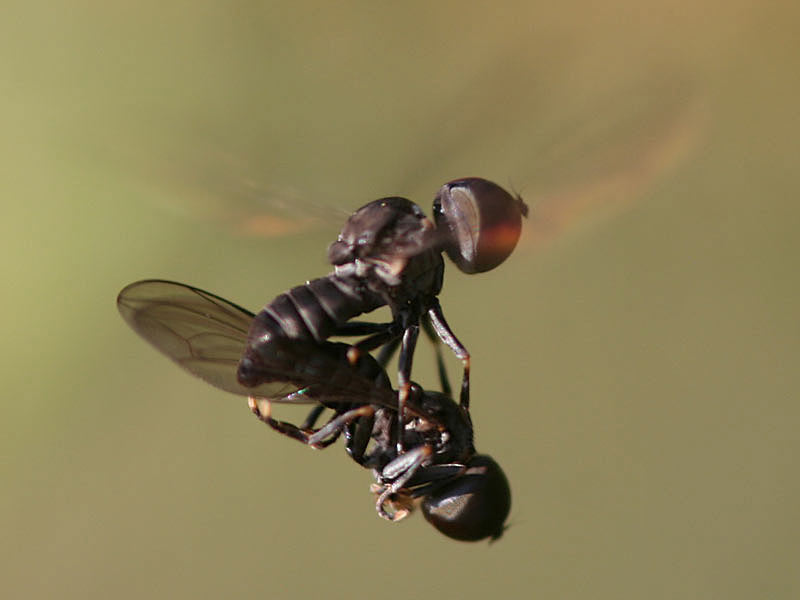 Pipunculidae Diptera (Couchey (Burgundy, France) - 8 avril 2007 - 4.5 mm long)